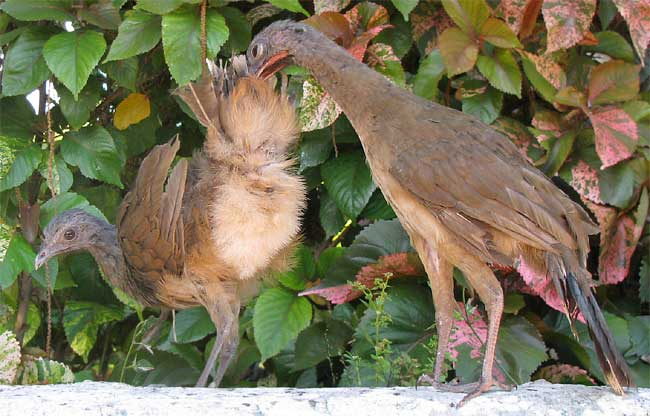 Two juvenile Plain Chachalacas (Ortalis vetula)